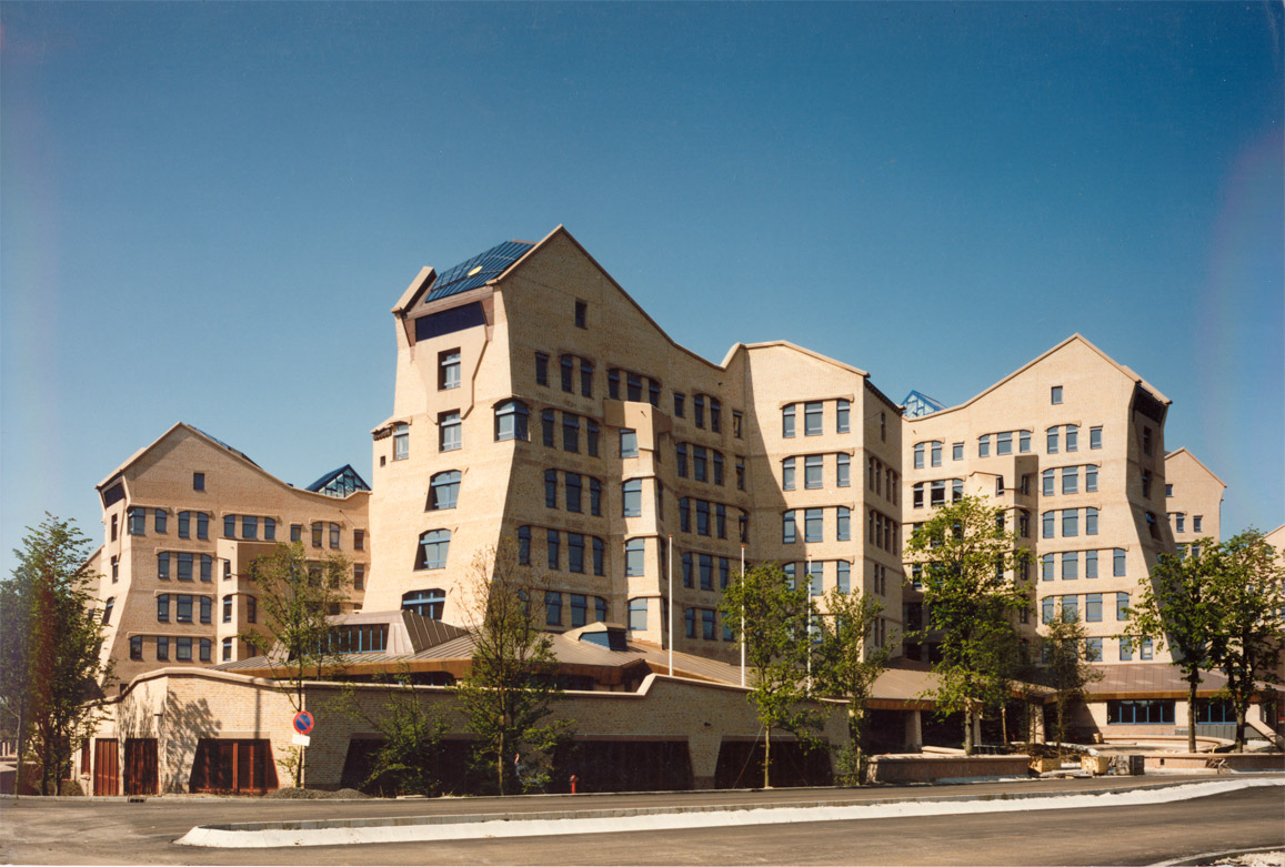 View of south facade of ING headoffice, Amsterdam. Previously the headquarters of the NMB.